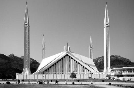 Faisal Mosque in March 2006